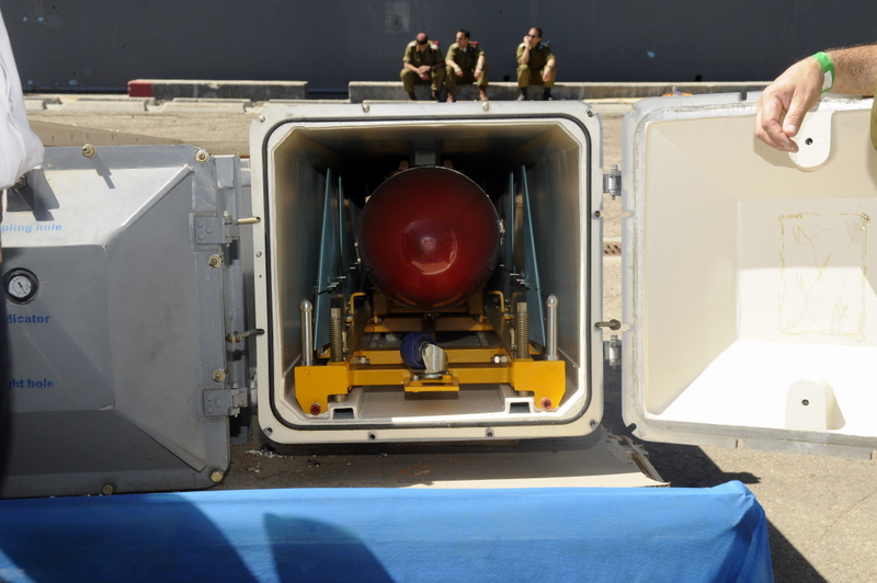 March 16, 2011 Pictured here: Canister containing the C-704 anti-ship shore-to-sea missile. The missile, used by the Iranian military, has a range of 35 km and was intended for the use of terrorist organizations in the Gaza Strip. The IDF Navy intercepted the cargo vessel “Victoria” loaded with various weaponry. According to assessments, the weaponry on-board the vessel was intended for the use of terror organizations operating in the Gaza Strip. The vessel, flying under a Liberian flag, was intercepted some 200 miles west of Israel’s coast. This incident was part of the Navy’s routine activity to maintain security and prevent arms smuggling, in light of IDF security assessments. The vessel initially departed from the Lattakia Port in Syria, and then proceeded to Mersin Port in Turkey. The IDF emphasizes that Turkey has no connection to this incident regarding the weaponry uncovered on-board. For more information